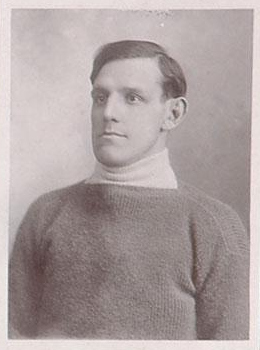 Ice hockey player Lorne Campbell of the Winnipeg Maple Leafs in the 1907–08 Manitoba Hockey Association season.